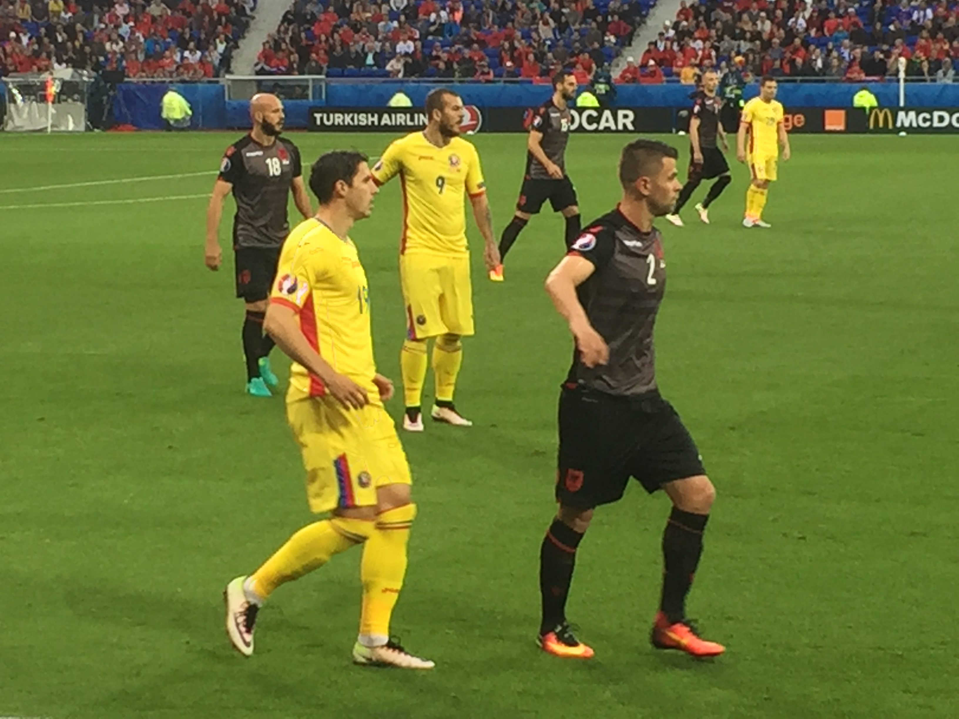 Romania-Albania (2016-06-19)